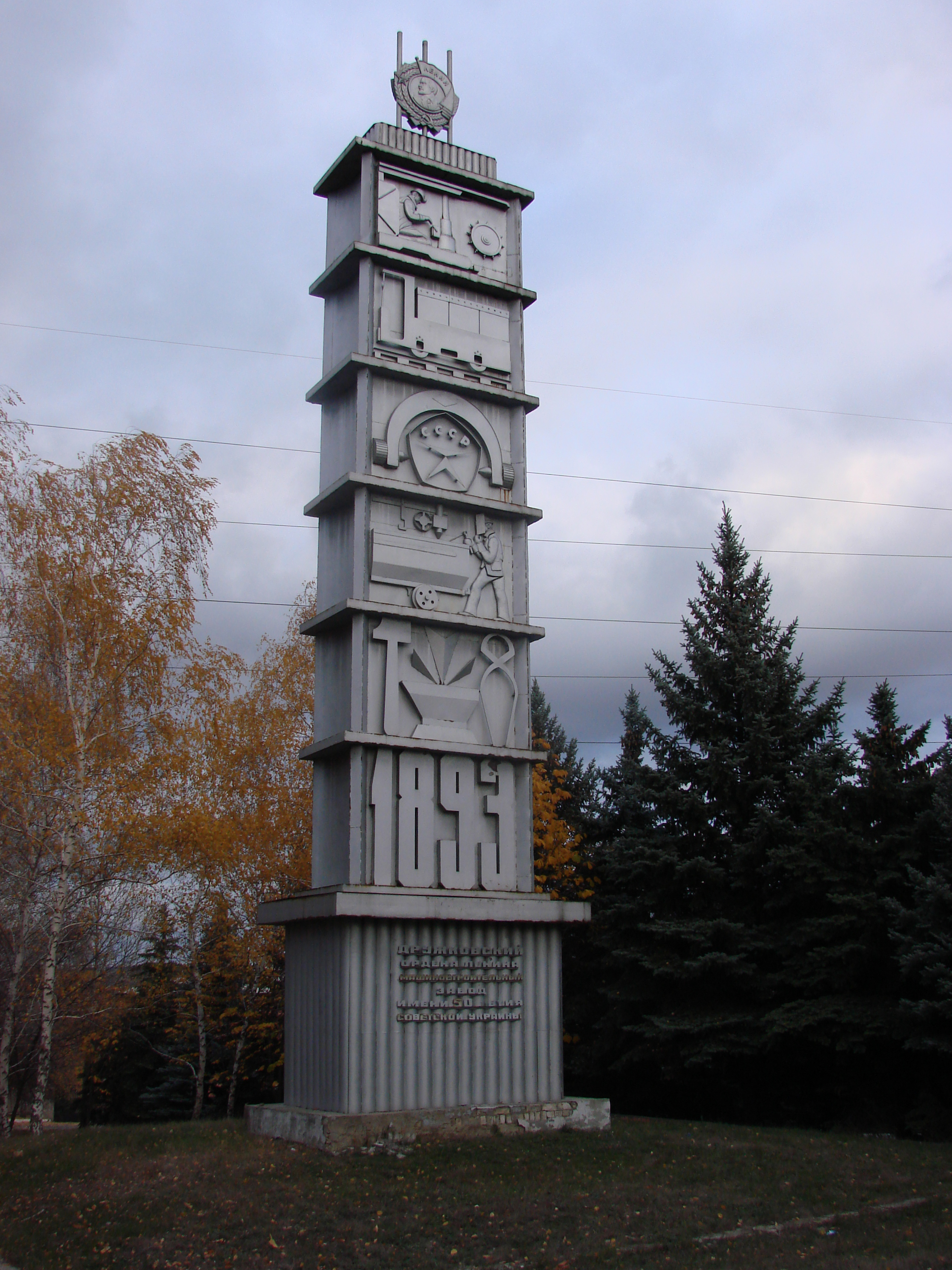 Commemorative sign. DMZ. Druzhkivka, Donetsk Oblast, Ukraine